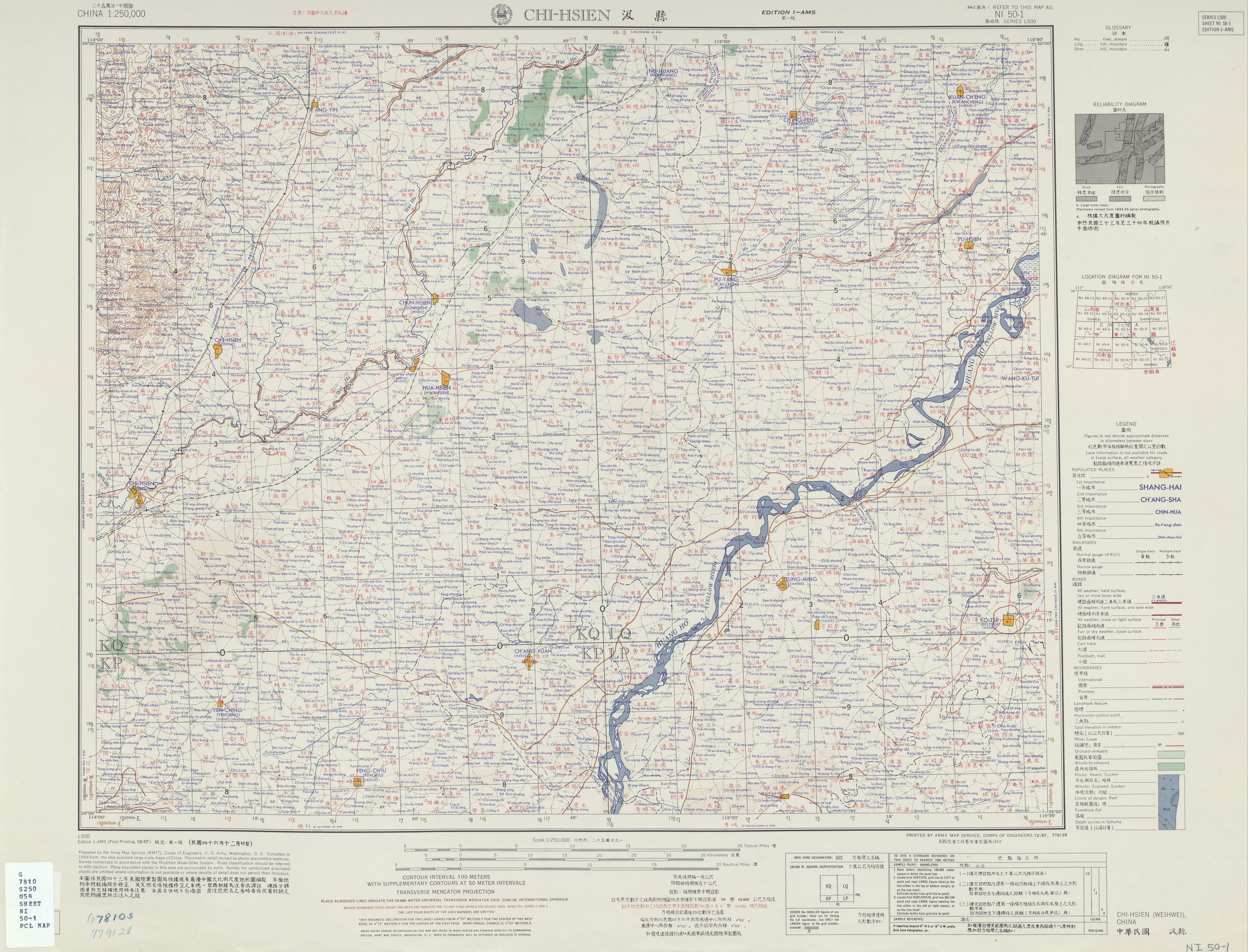 China AMS Topographic Maps